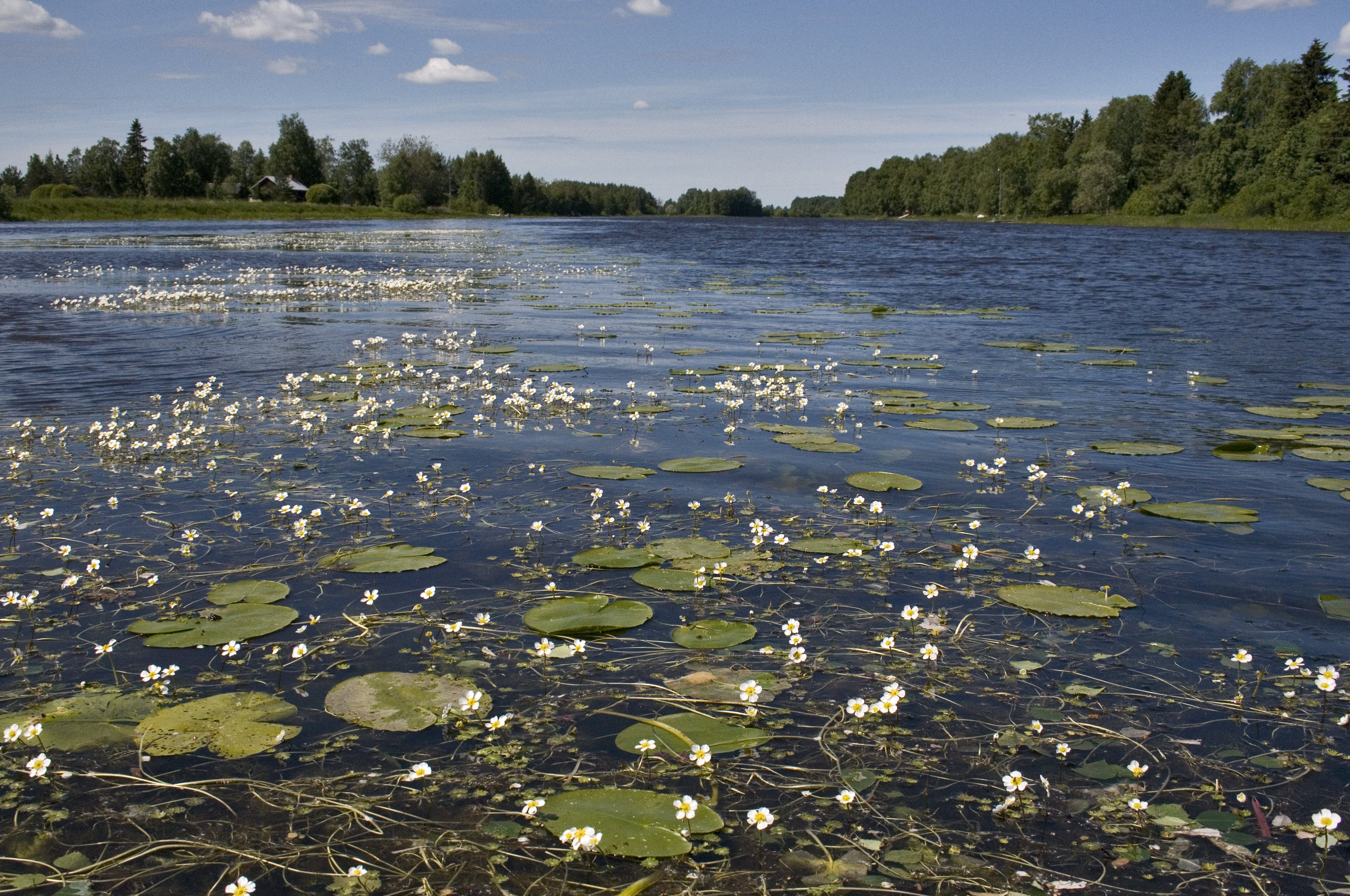 Pond Water-crowfoot (Ranunculus peltatus) in Kokemäenjoki river in Huittinen, Finland